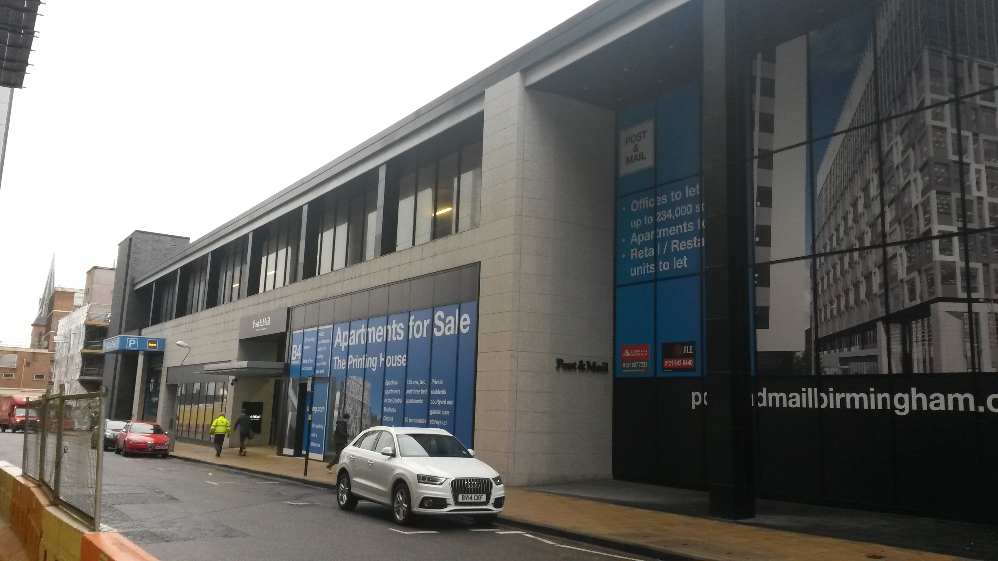 Birmingham Post and Mail Phase 1 completed and open